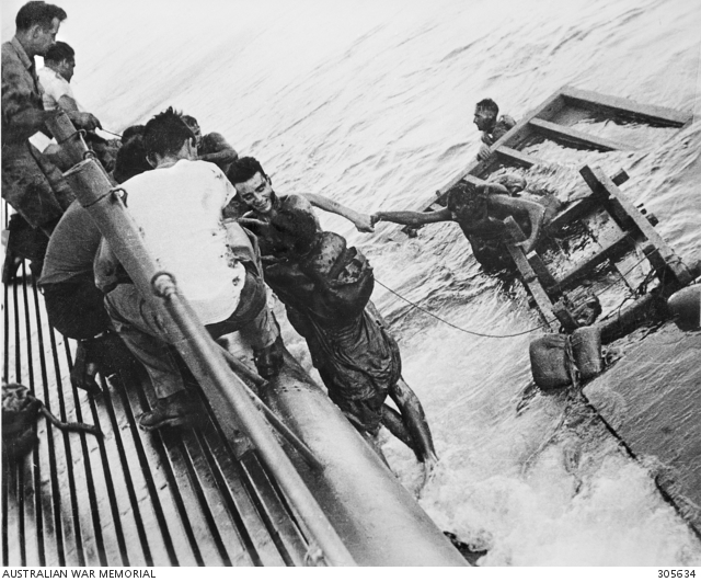 China Sea. Oil soaked British and Australian Prisoners of War who survived the sinking of the Japanese transport Rakuyo Maru by the submarine USS Sealion, being picked up three days later by that submarine. (Naval Historical Collection).